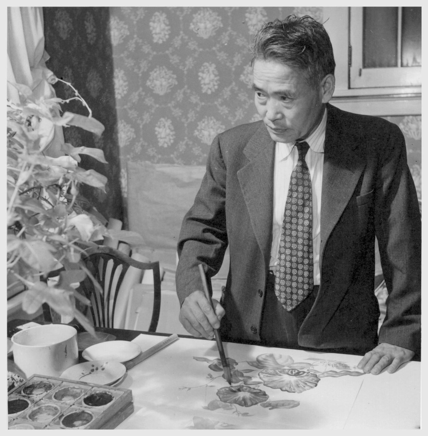 During his spare time, Professor Obata likes to draw and paint for his own pleasure. He can be seen sketching a morning glory, taken from his own yard. His home is surrounded by plants and trees which he uses as models for his work. -- Photographer: Iwasaki, Hikaru -- Webster Groves, Missouri. 9/21/44 Volume 50, Section F, WRA no. I-530, from UC Berkeley, Bancroft Library; War Relocation Authority Photographs of Japanese-American Evacuation and Resettlement, Series 13: Relocation (continued).